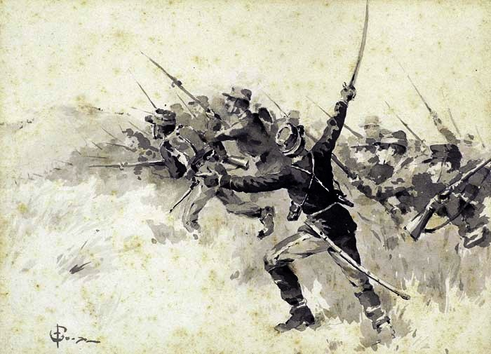 Έφοδος! - Charge!. Painting on the Greco-Turkish War of 1897